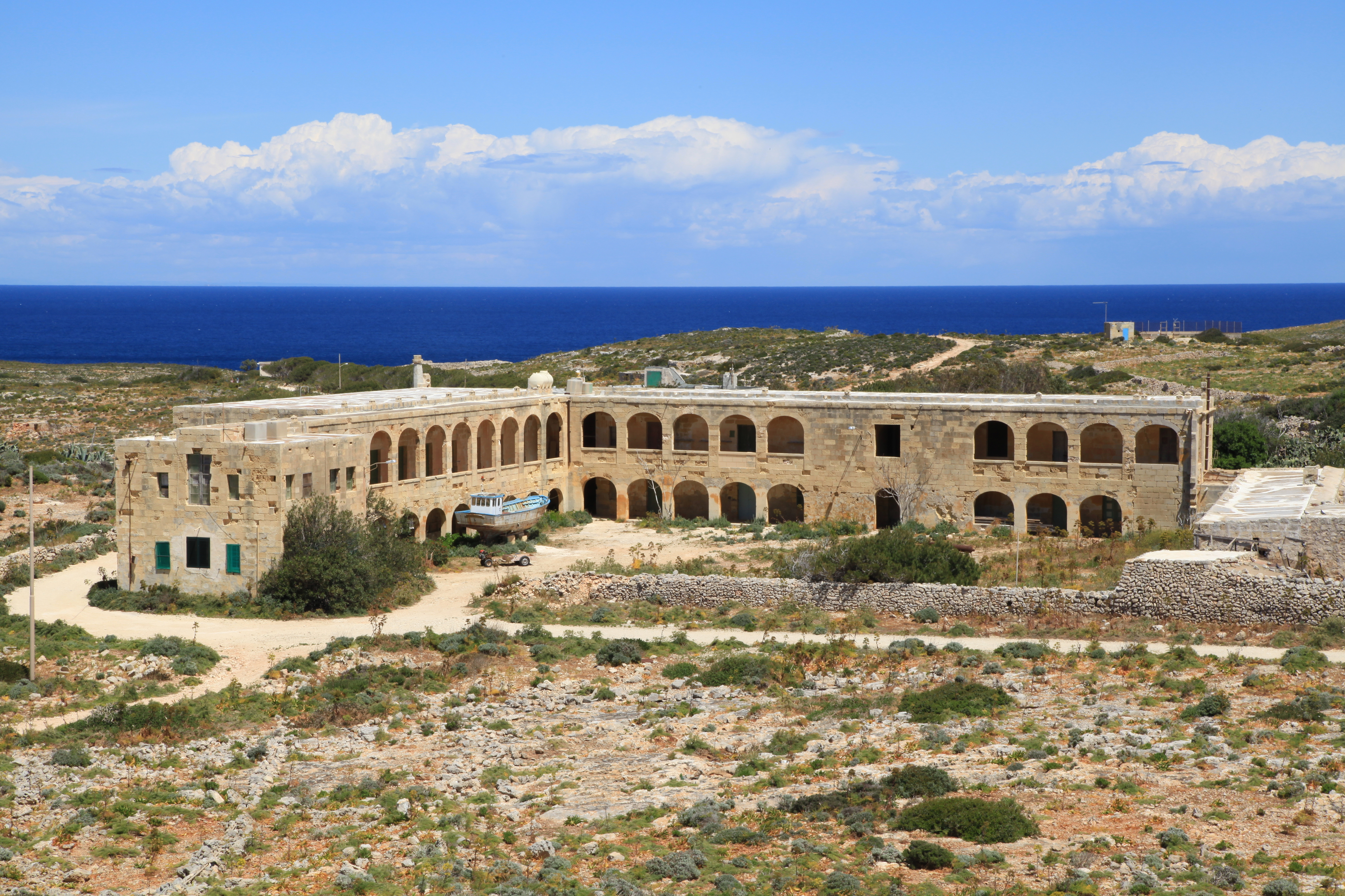 View from St. Mary's Tower to the quarantine station on Comino in Għajnsielem, Malta